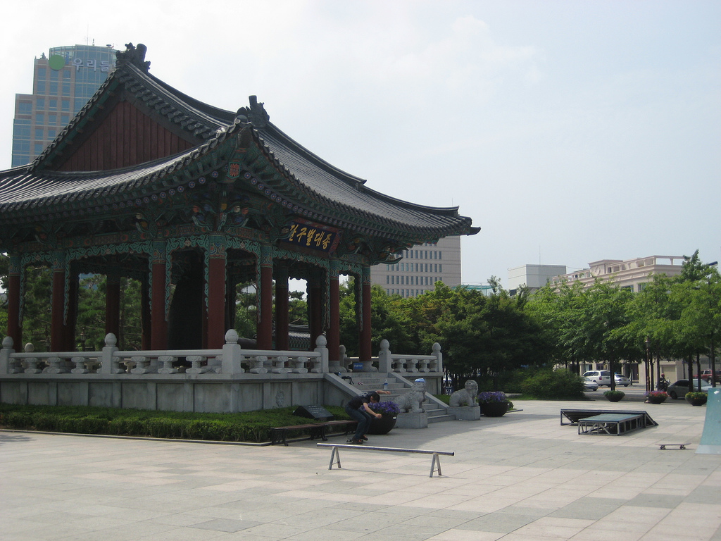 Dalgubeol-daejong (Dalgubeol Grand Bell) at Gukchae-bosang-undong-ginyeom-gongwon (National Debt Repayment Movement Memorial Park), Daegu